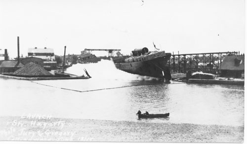 Launch of the 550-foot long Canadian freighter J. H. G. Hagarty in Collingwood, Ontario